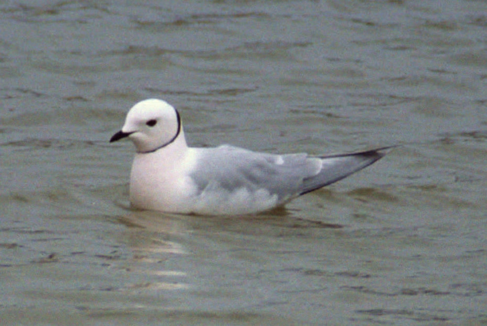 Ross's Gull (Rhodostethia rosea) Photographed in Churchill, Manitoba.